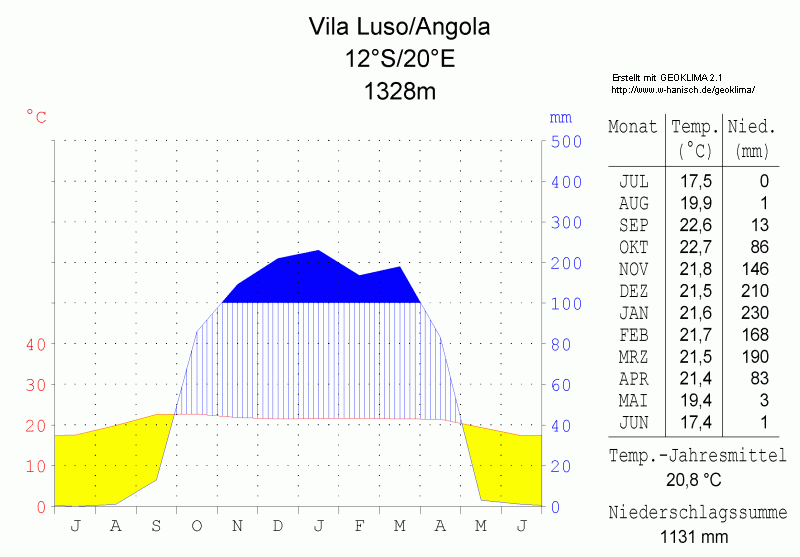 climate chart in the format by Walther and Lieth